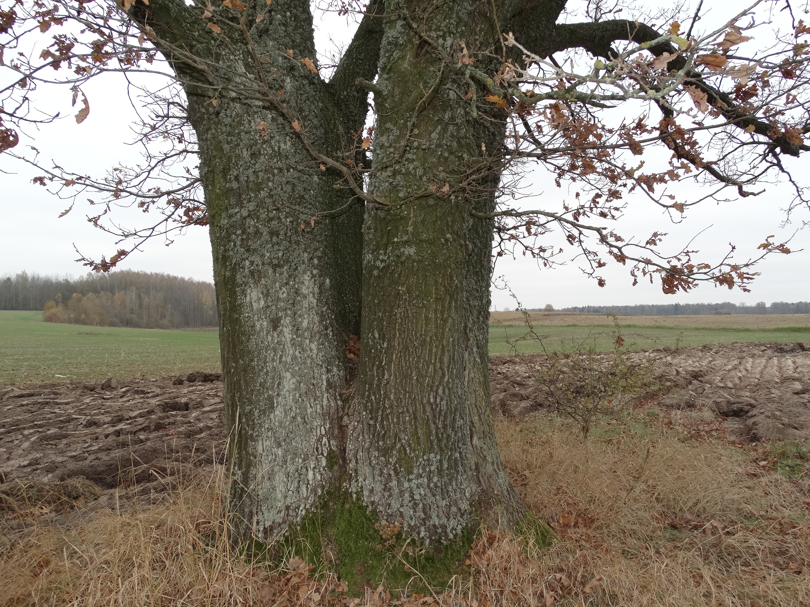 Oak near Svirplionys, Kaišiadorys District, Lithuania